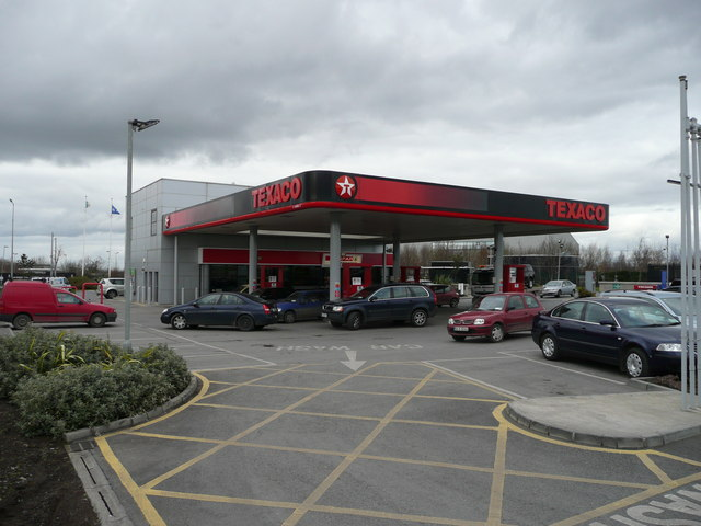 Filling station near Ballycoolen A busy place surrounded by offices and business parks. Located in the townland of Cloghran.